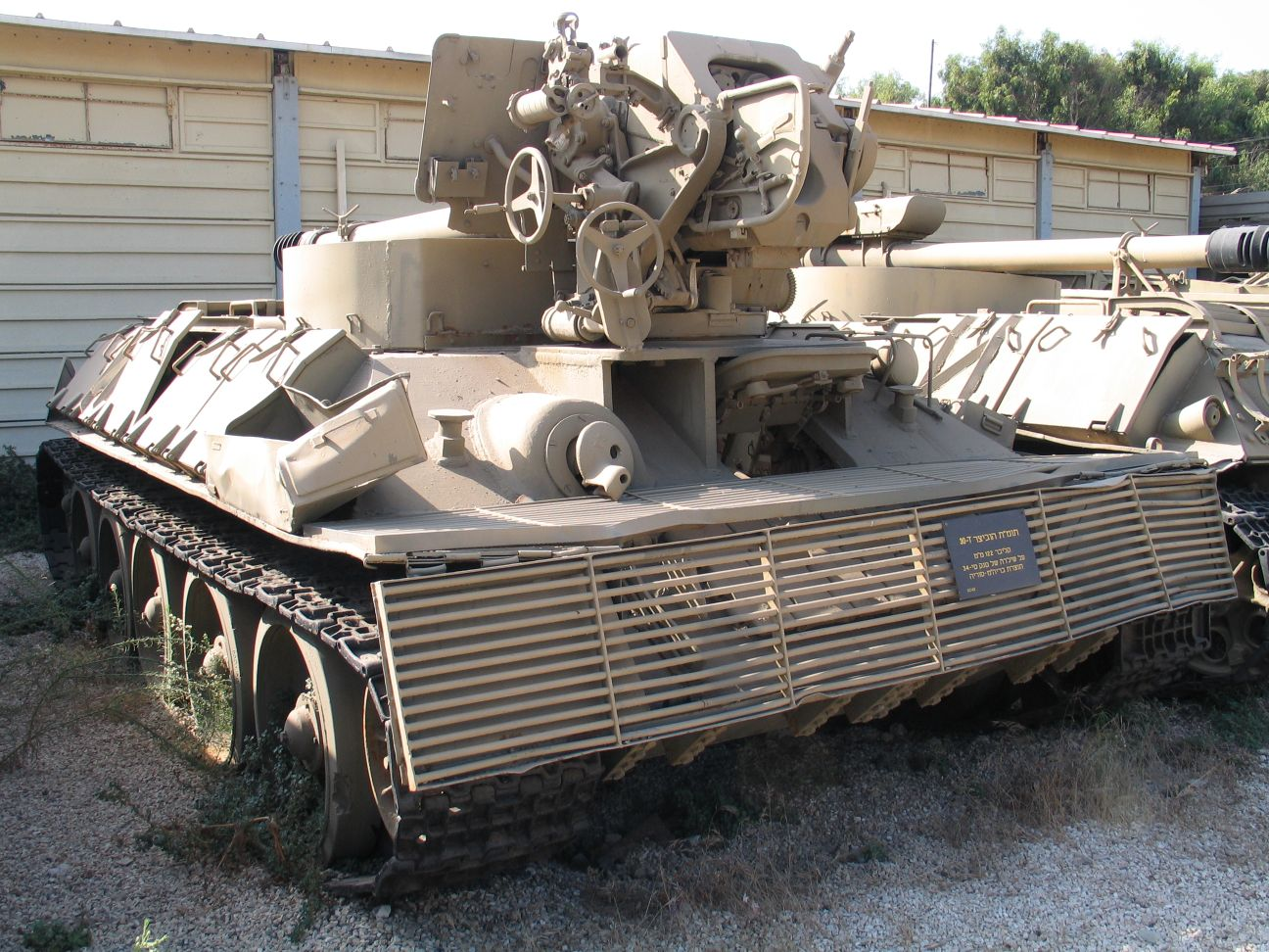 Description: Syrian self-propelled howitzer (essentially a Soviet D-30 howitzer mounted on a Soviet T-34 tank chassis) in Batey ha-Osef Museum, Tel Aviv, Israel. 2005. Source: Photo by me, User:Bukvoed.